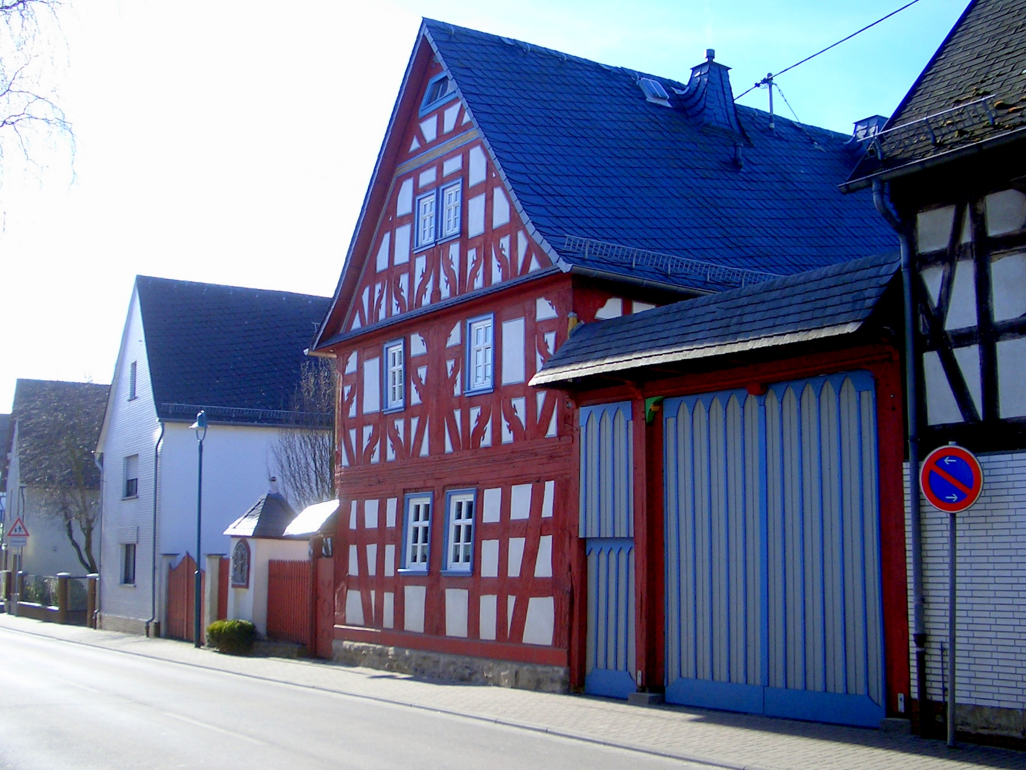 Parent House of Jacob Preuß, built in 1702